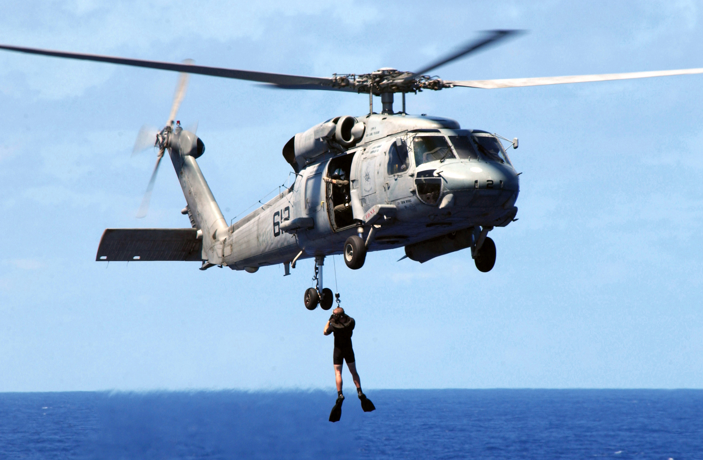 At sea with USS Carl Vinson (Feb. 19, 2003) -- Aviation Warfare Operator 2nd Class Jay Okonek, from Farmville, N.C., is lowered from an SH-60F Seahawk assigned to the "Eight Ballers" of Helicopter Anti-Submarine Squadron Eight (HS-8) during a search and rescue (SAR) swimmer exercise. Carl Vinson is currently conducting operations in the Pacific Ocean. U.S. Navy photo by Photographer's Mate 2nd Class Inez Lawson. (RELEASED)